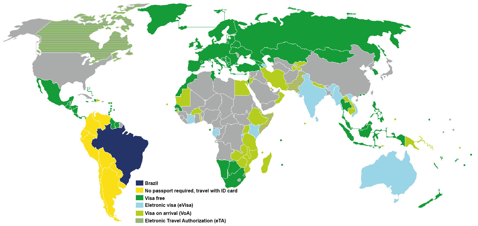 update